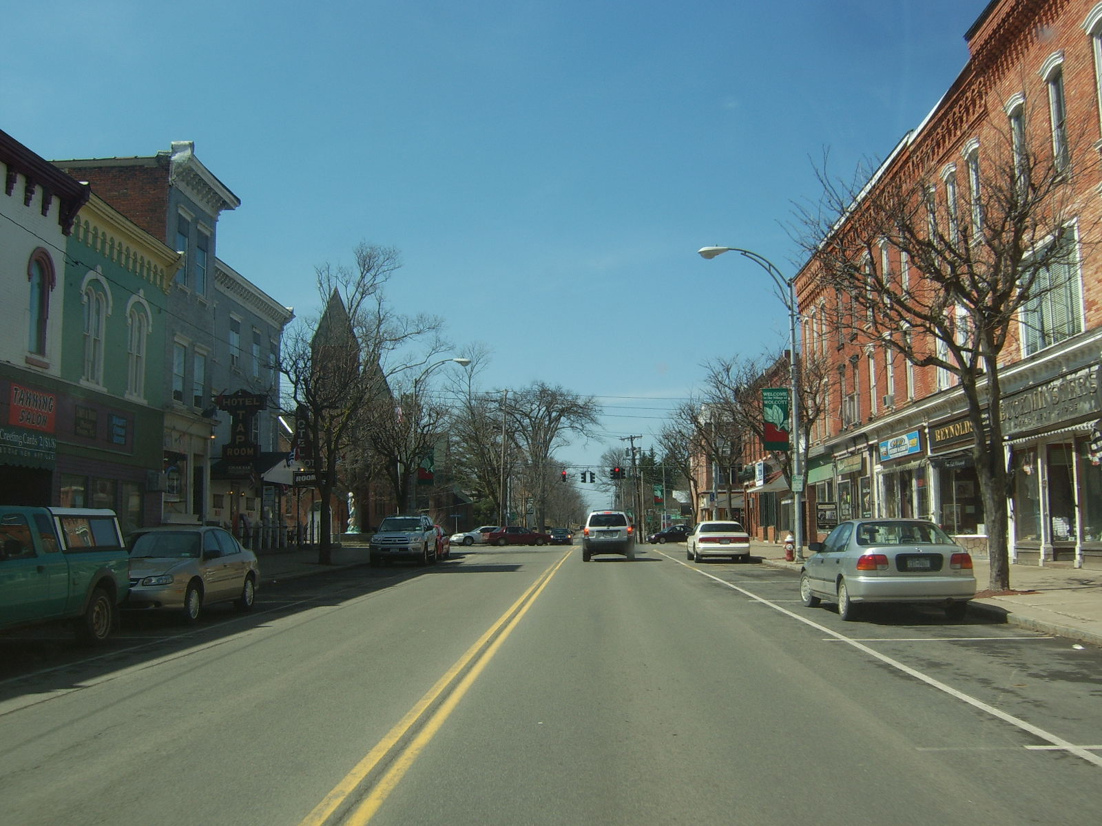 Looking west along East Main Street (Ridge Road) in the village of Wolcott, New York.